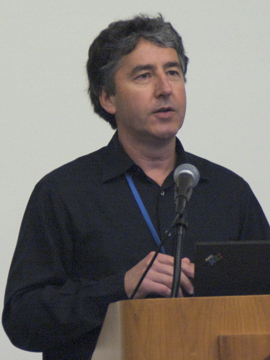 Gerald Joyce speaking at 2010 AAAS Meetings in San Diego